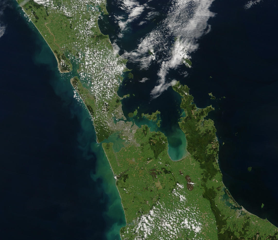 Auckland area, showing the base of the Northland Peninsula (top left), Auckland city (centre left), the Waikato plains (lower left), the Hauraki Gulf (centre), Coromandel Peninsula (right of centre), and the western Bay of Plenty and city of Tauranga (lower right). "This stunning true-color image provides a rare, cloud-free look at the island nation of New Zealand, including most of its North and South Islands. This scene was acquired by the Moderate Resolution Imaging Spectroradiometer (MODIS), flying aboard NASA’s Terra satellite, on October 23, 2002. New Zealand is situated in the South Pacific Ocean, roughly 2,000 km (1,250 miles) southeast of Australia. Wellington, the capital of New Zealand, is located on the southern tip of the North Island, looking across Cook Strait toward South Island."